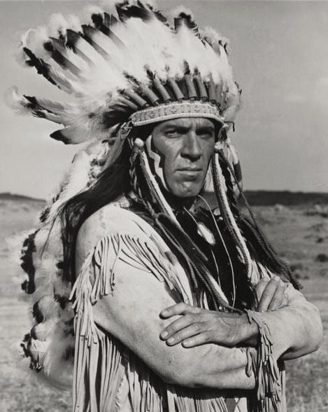 Kieron Moore in the American western film Custer of the West (1967) - publicity still (original image damaged, modified and cropped)